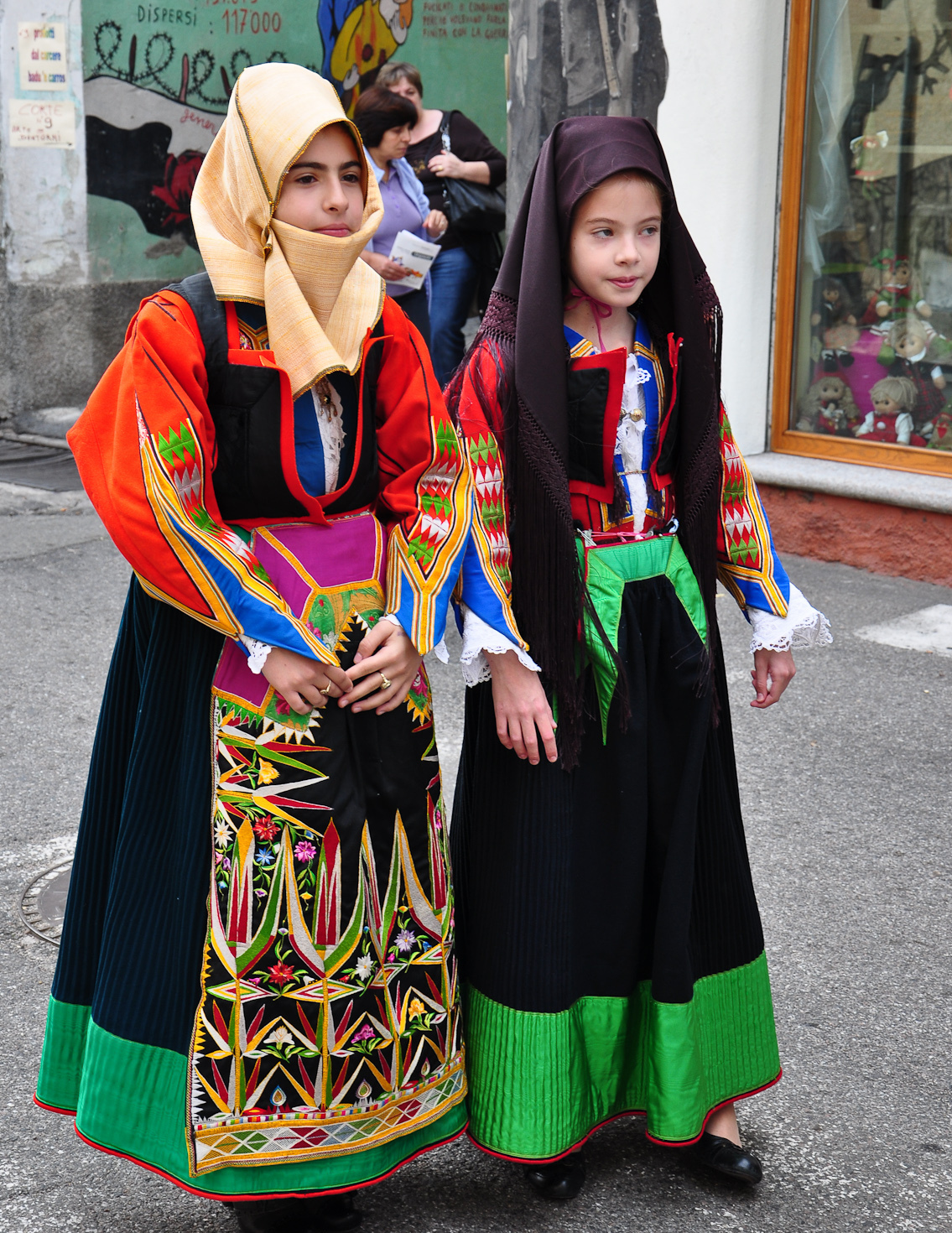 sardinians - traditional costume of orgosolo, nuoro